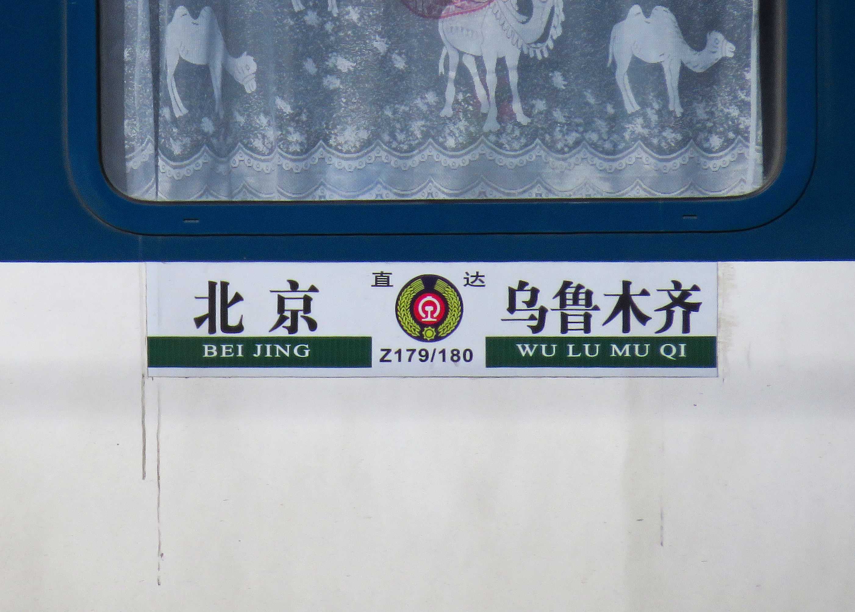 Curtain decorated with camels... this is a typical image of silk road.